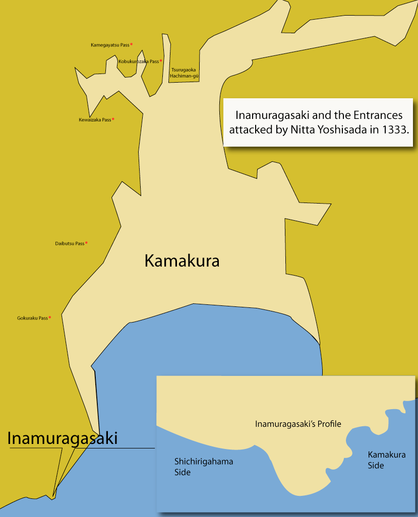 A map made with Illustrator that shows Inamuragasaki and the passes around Kamakura attacked by Nitta Yoshisada in 1333